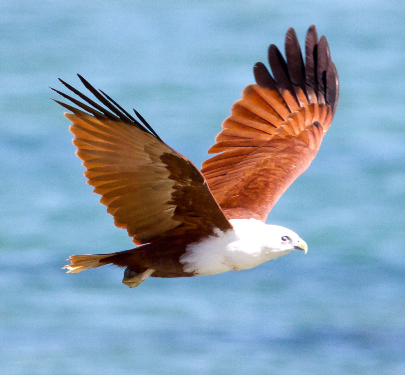 A Brahminy Kite flying at Withnell Bay, Karratha, Pilbara, Western Australia, Australia.